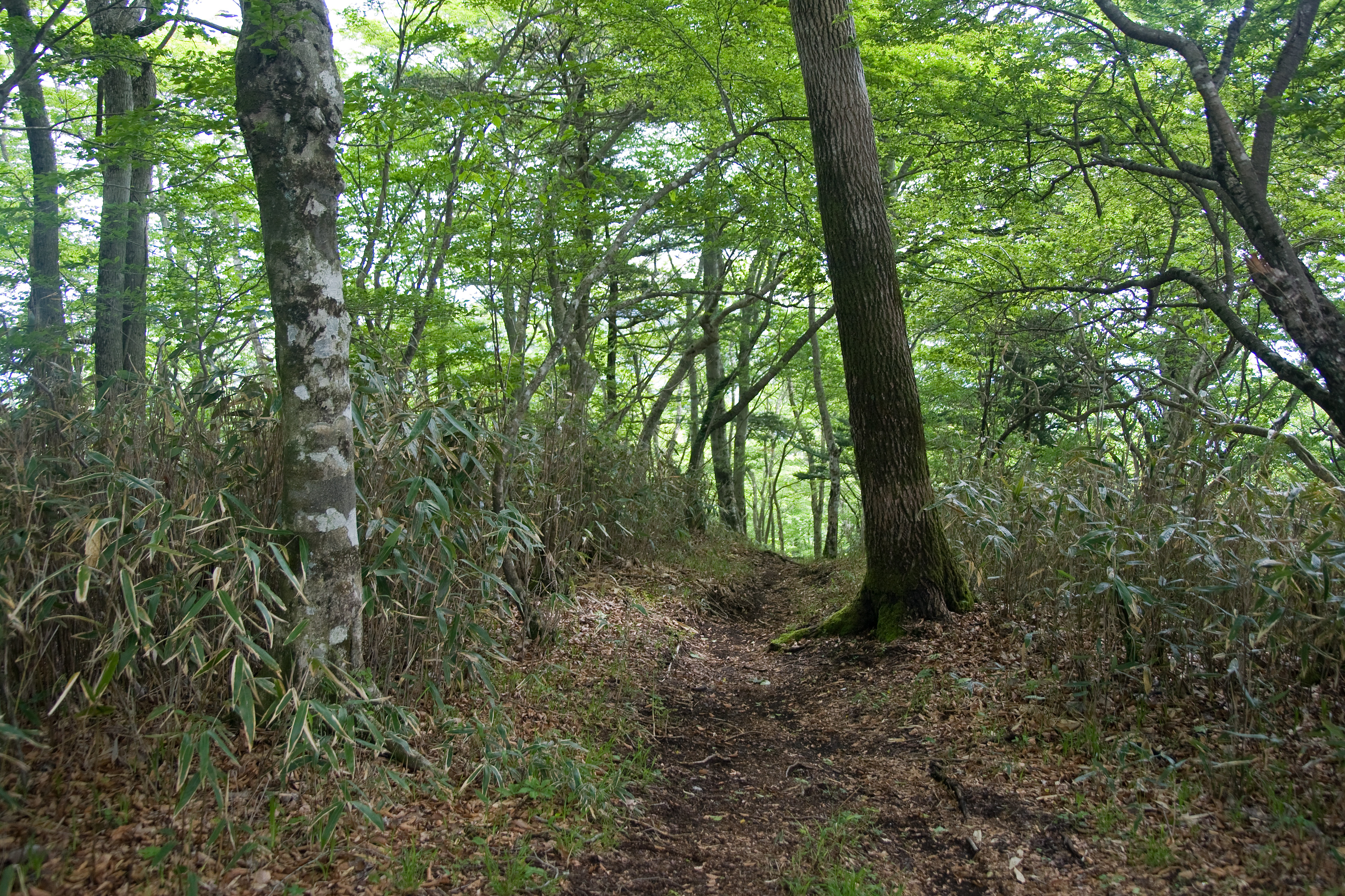 The forest in Mt.Komotsurushi, Tanzawa Mountains, Kanagawa Pref., Japan.